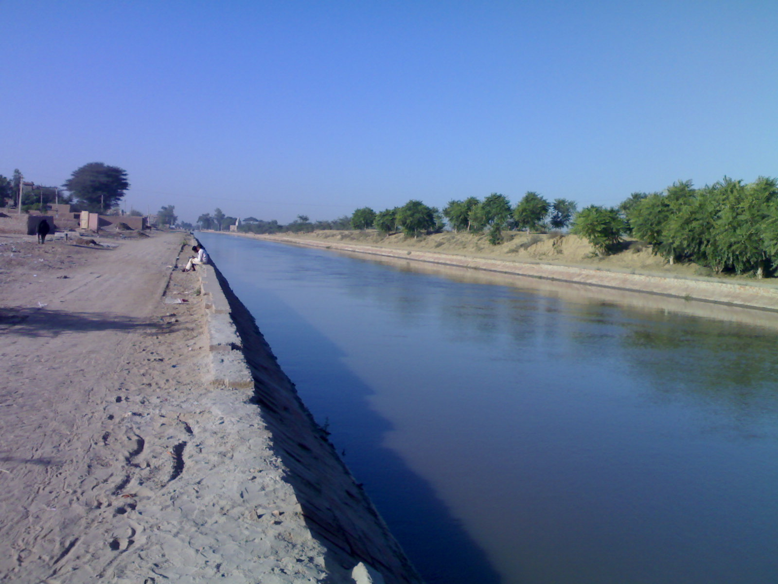 This photo show you canal in Rawla mandi. This photo is created by me (user:Shemaroo aka Sivender Singh) Shemaroo (talk) 04:26, 12 March 2011 (UTC)